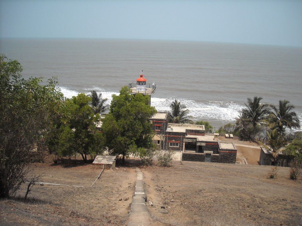 image was taken from korlai fort, Maharastra, India